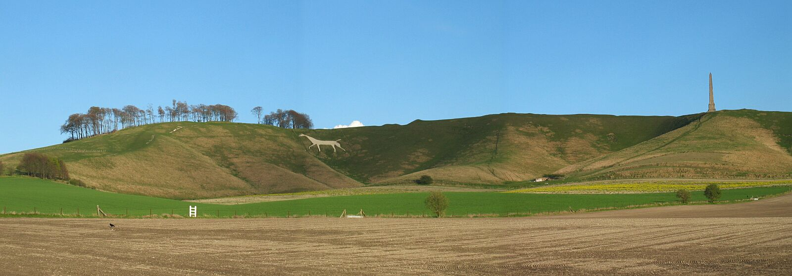 Panorama of Cherhill White Horse and Landsdowne Monument